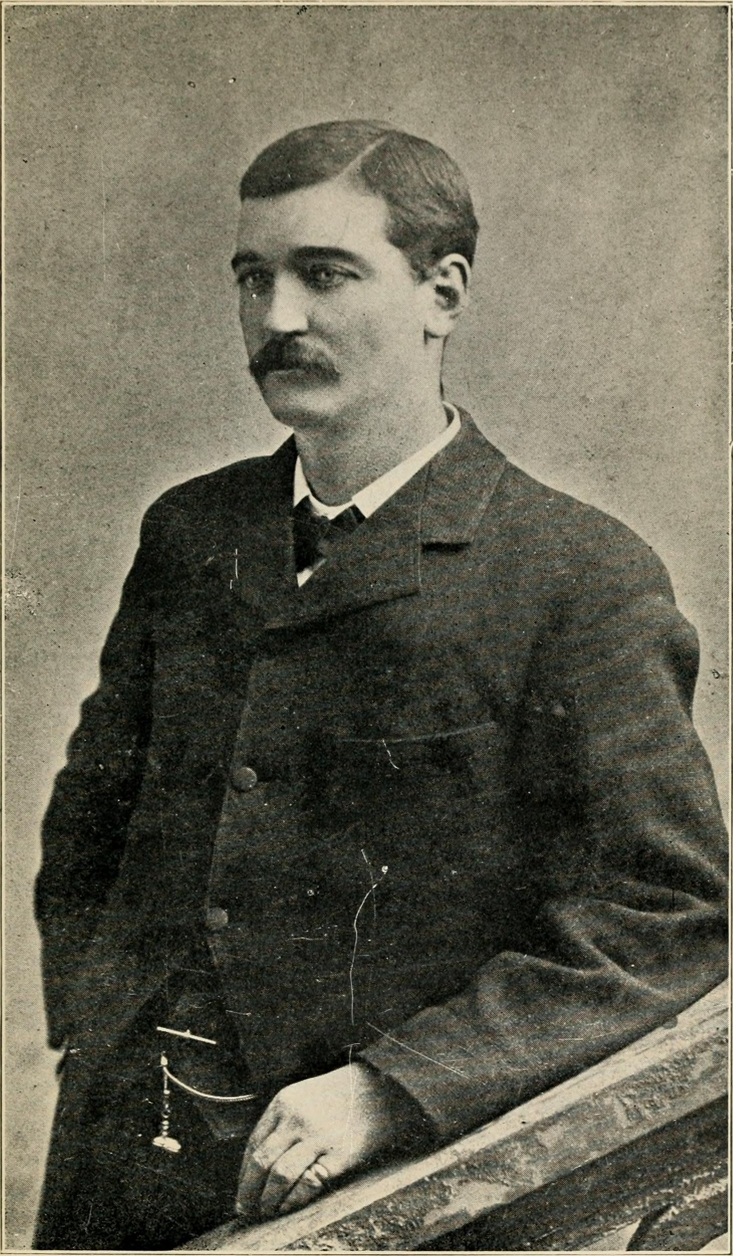 Bat Masterson